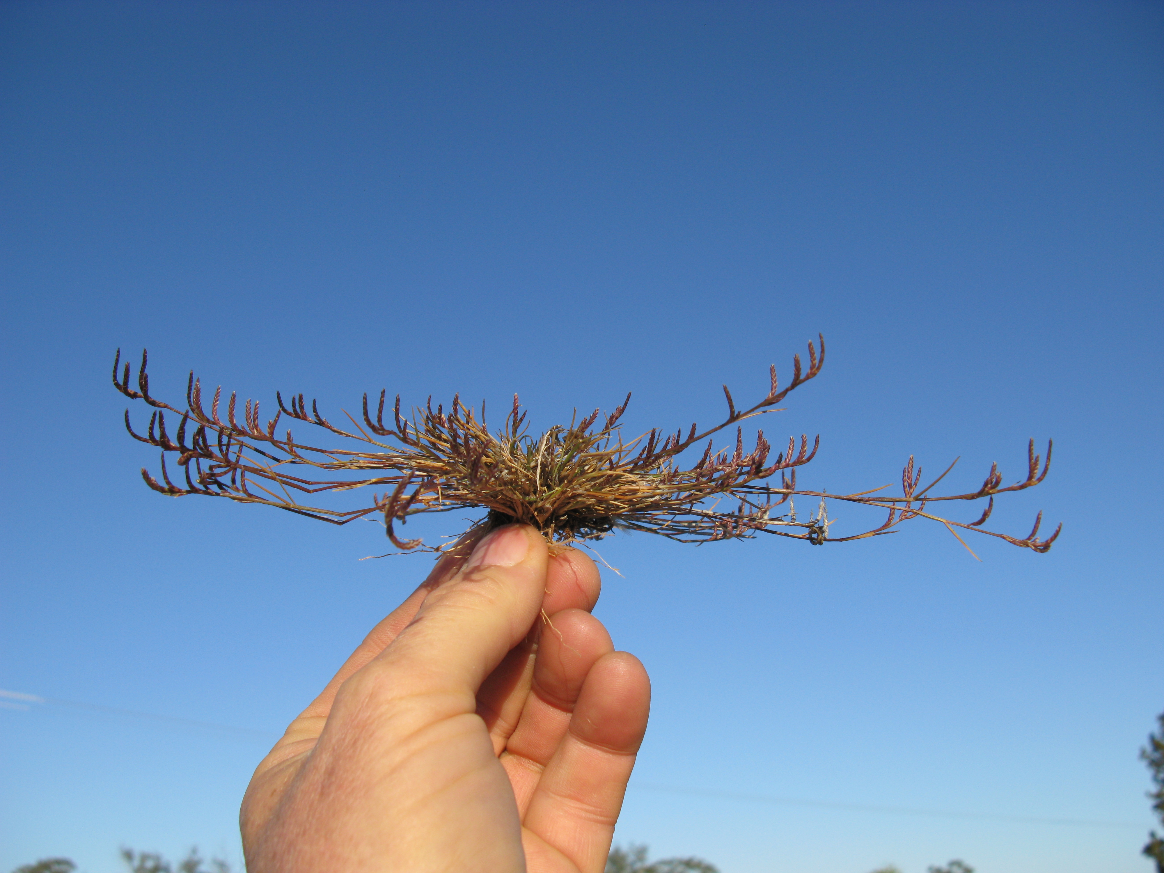 Native, warm-season, annual or short-lived perennial grass to 40 cm tall. Stems are spreading and their bases are often swollen.